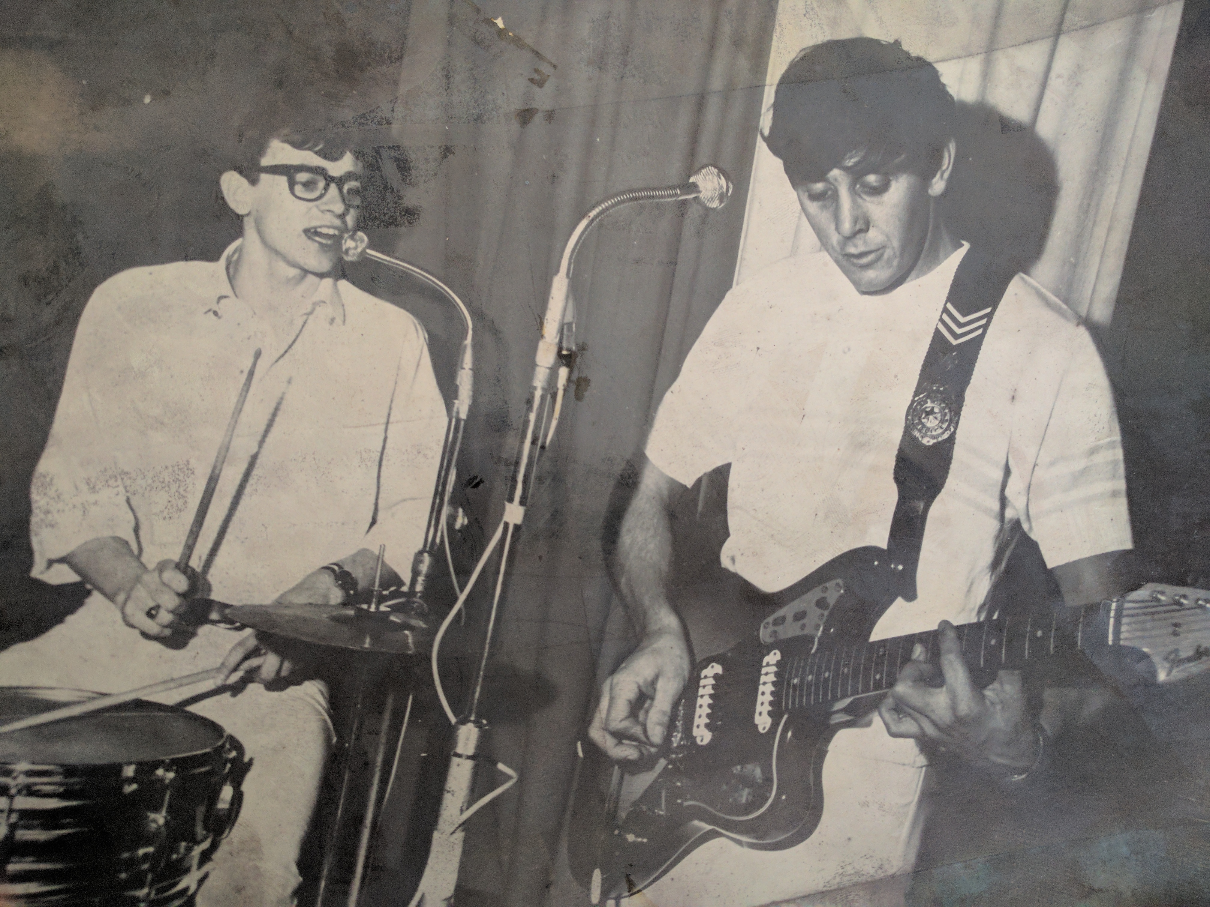 19th Generation playing at Le Chateau in the 1960's. Graeme Worland on right playing lead guitar and Russell Hitchcock playing drums.